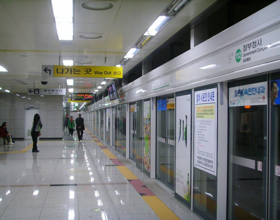 Government Complex Daejeon Station (Daejeon Subway #1)